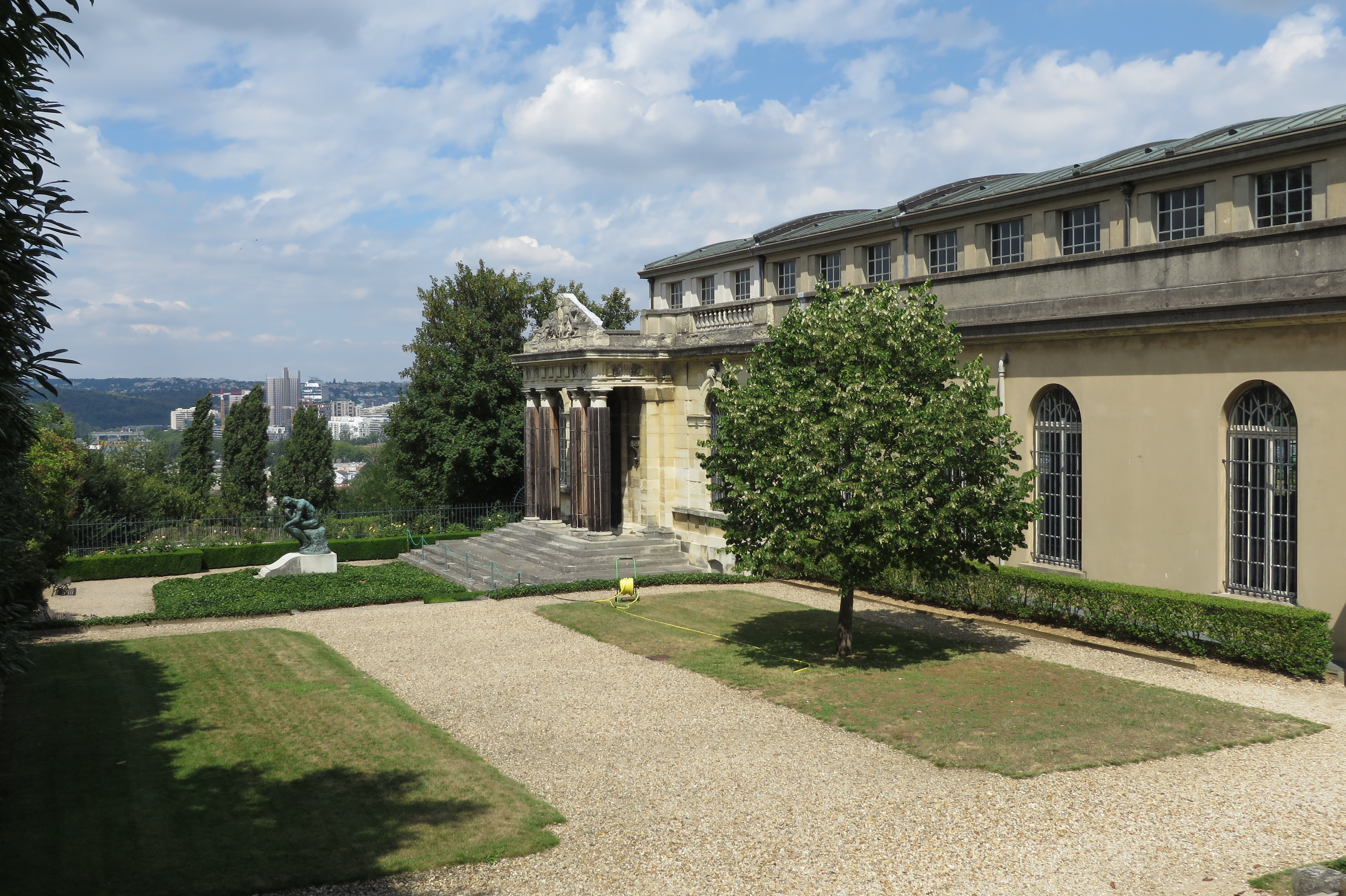 Musée Rodin de Meudon, Meudon